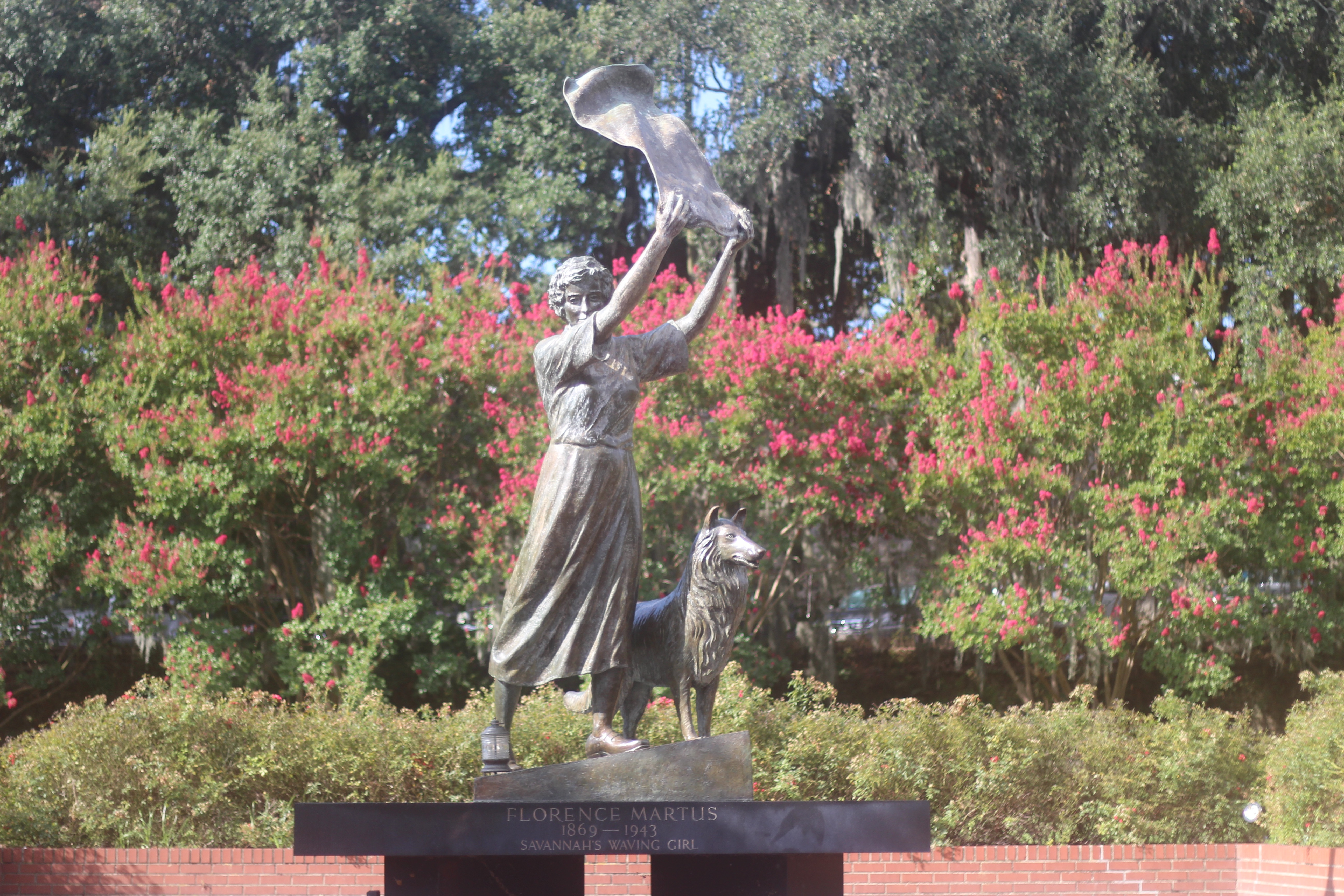 Photo of the Florence Martus statue in Savannah, Georgia.